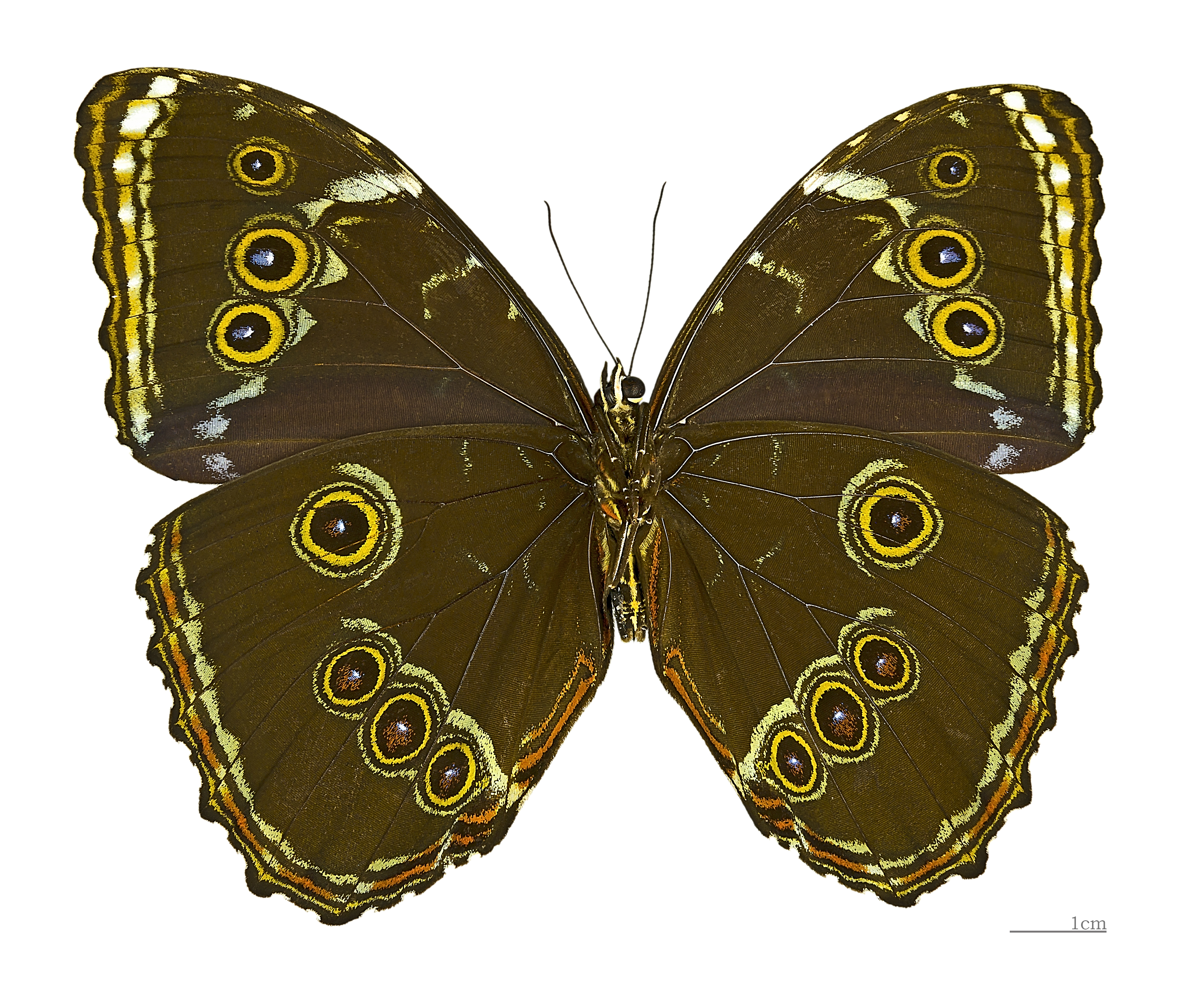 Morpho helenor helenor - △ Ventral side